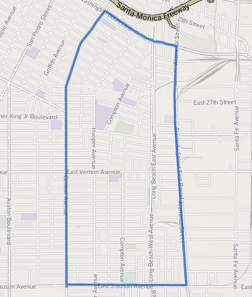 Map of Central Alameda neighborhood of the city of Los Angeles, California, showing the boundaries.